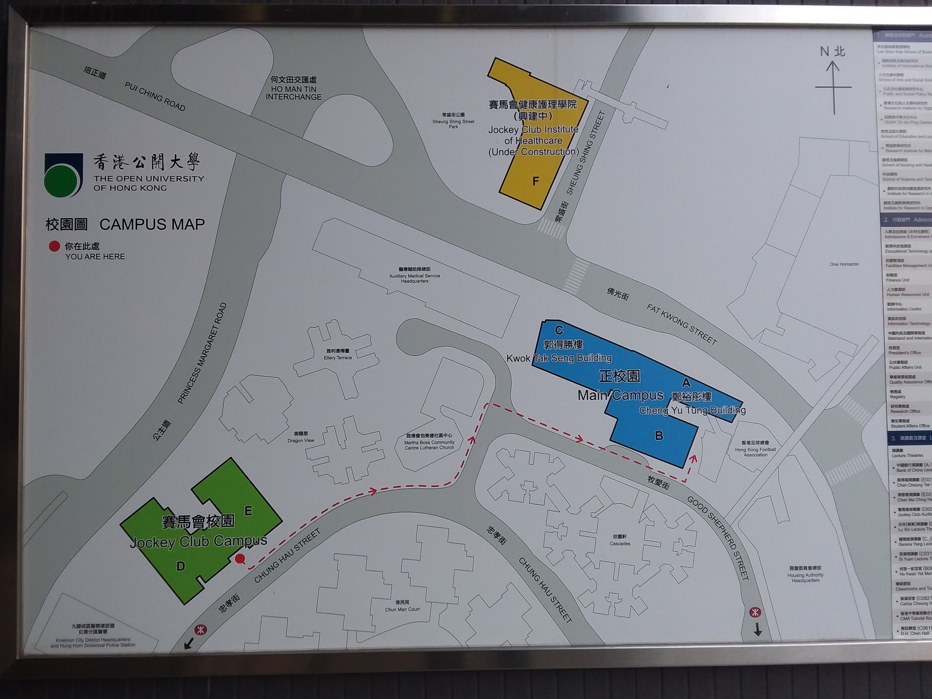 HK 何文田 Ho Man Tin 香港公開大學 OUHK Jockey Club Campus 忠孝街 Chung Hau Street in September 2019